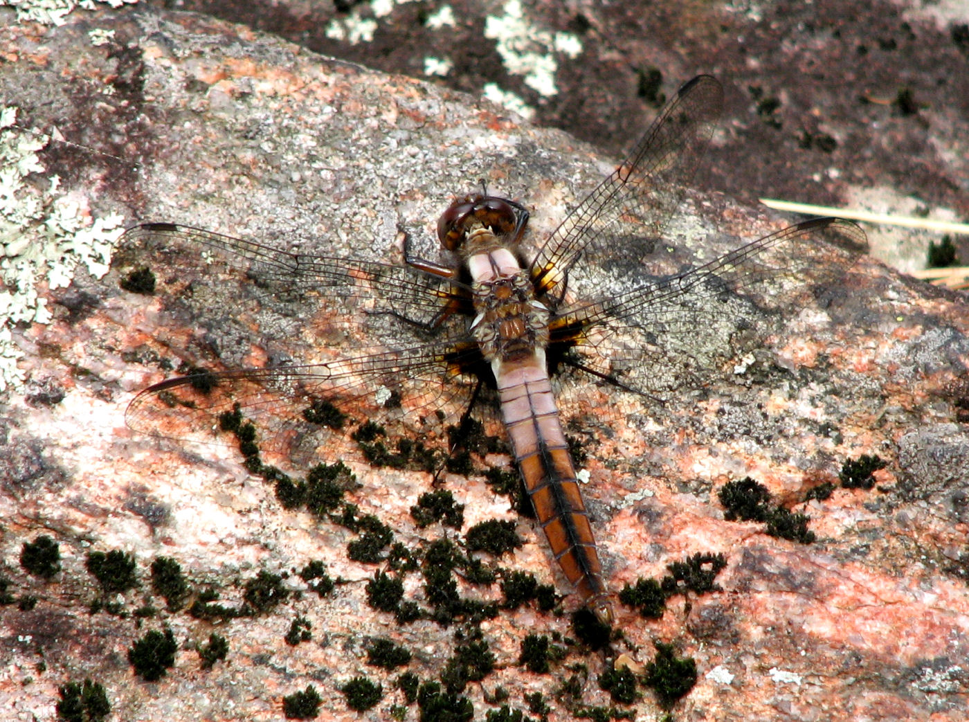 Chalk-fronted Corporal (Ladona julia), female juvenile, Magnetawan River, Ontario